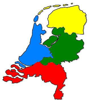 Sander 22:23, 22 April 2006 (UTC)